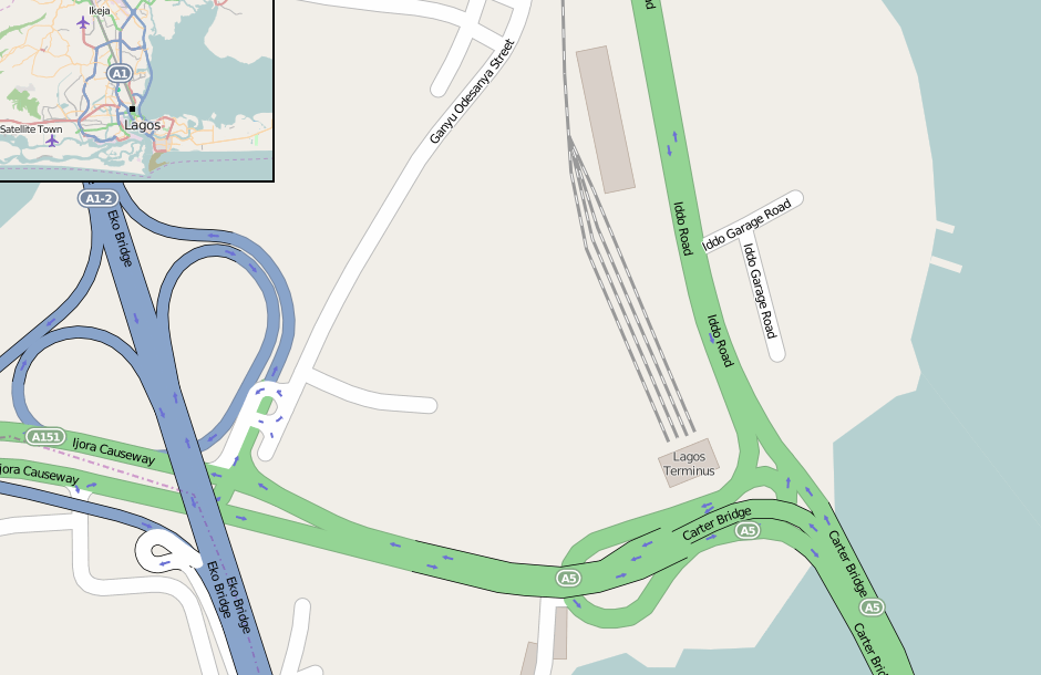 This map may be incomplete, and may contain errors. Don't rely solely on it for navigation.